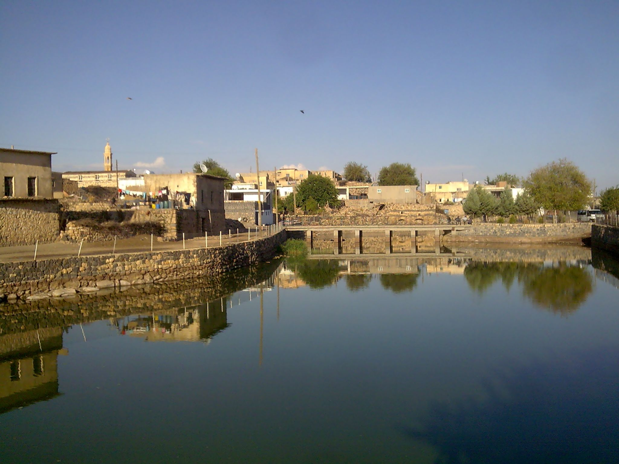 The village Midin, in the front its lake "Raumo" - Das Dorf Midin, im Vordergrund der Teich "Raumo"